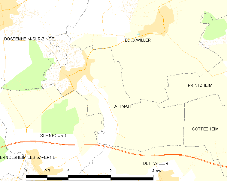 Map of French municipality